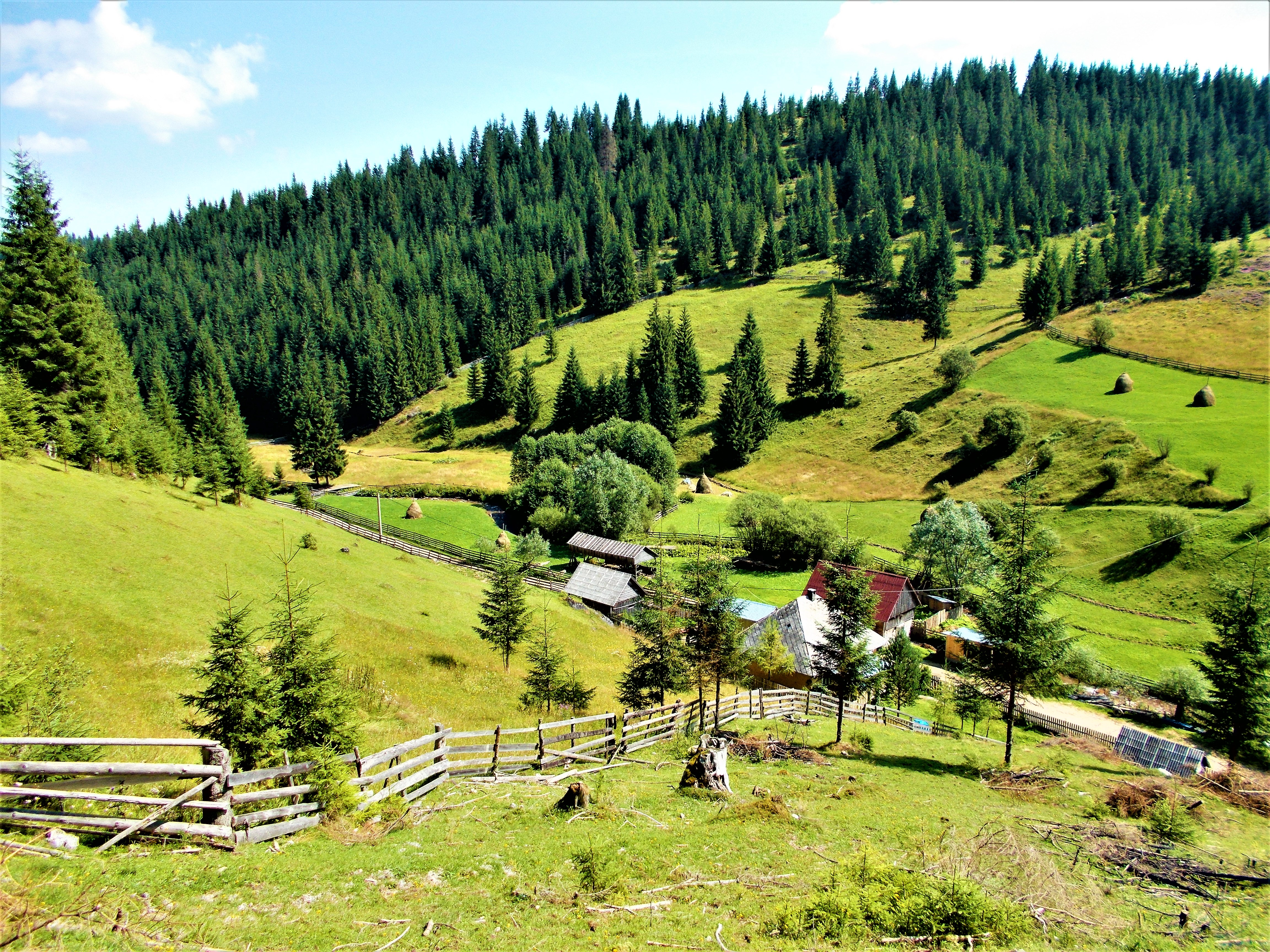 Poiana Horea, Cluj County